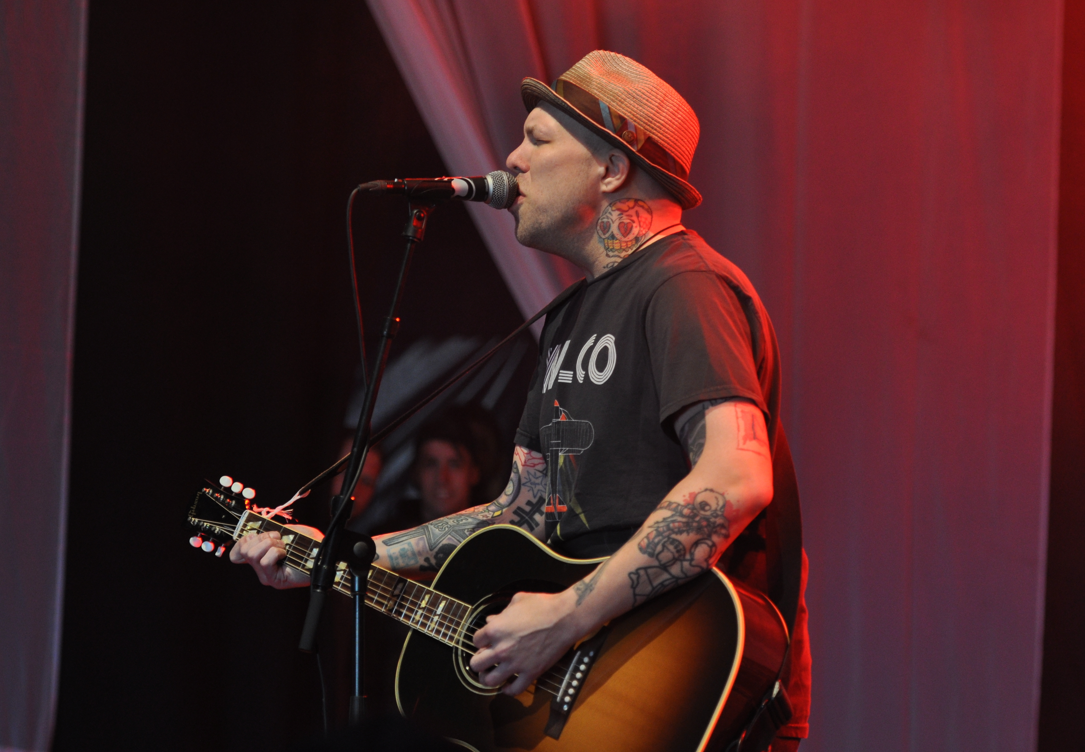 Kristopher Roe, frontman of The Ataris, in an acoustic solo at Groezrock 2013, Belgium